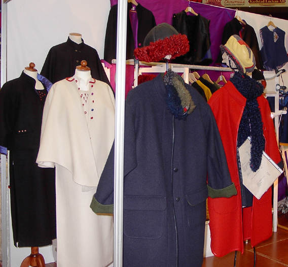 Clothes made out of Vadmal